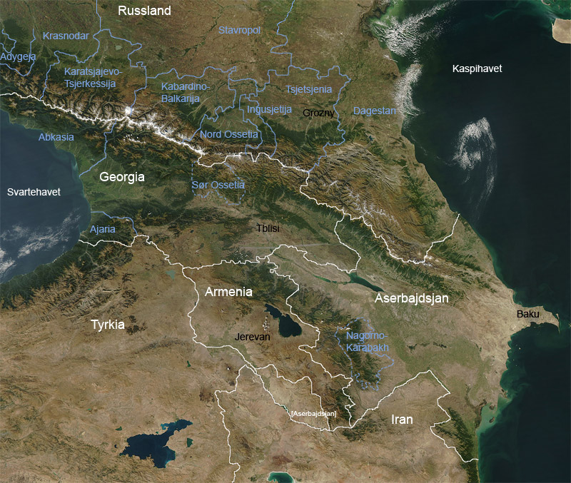 Satellite photo of Caucasus with boarders and names in Norwegian. Based on photo from NASA.